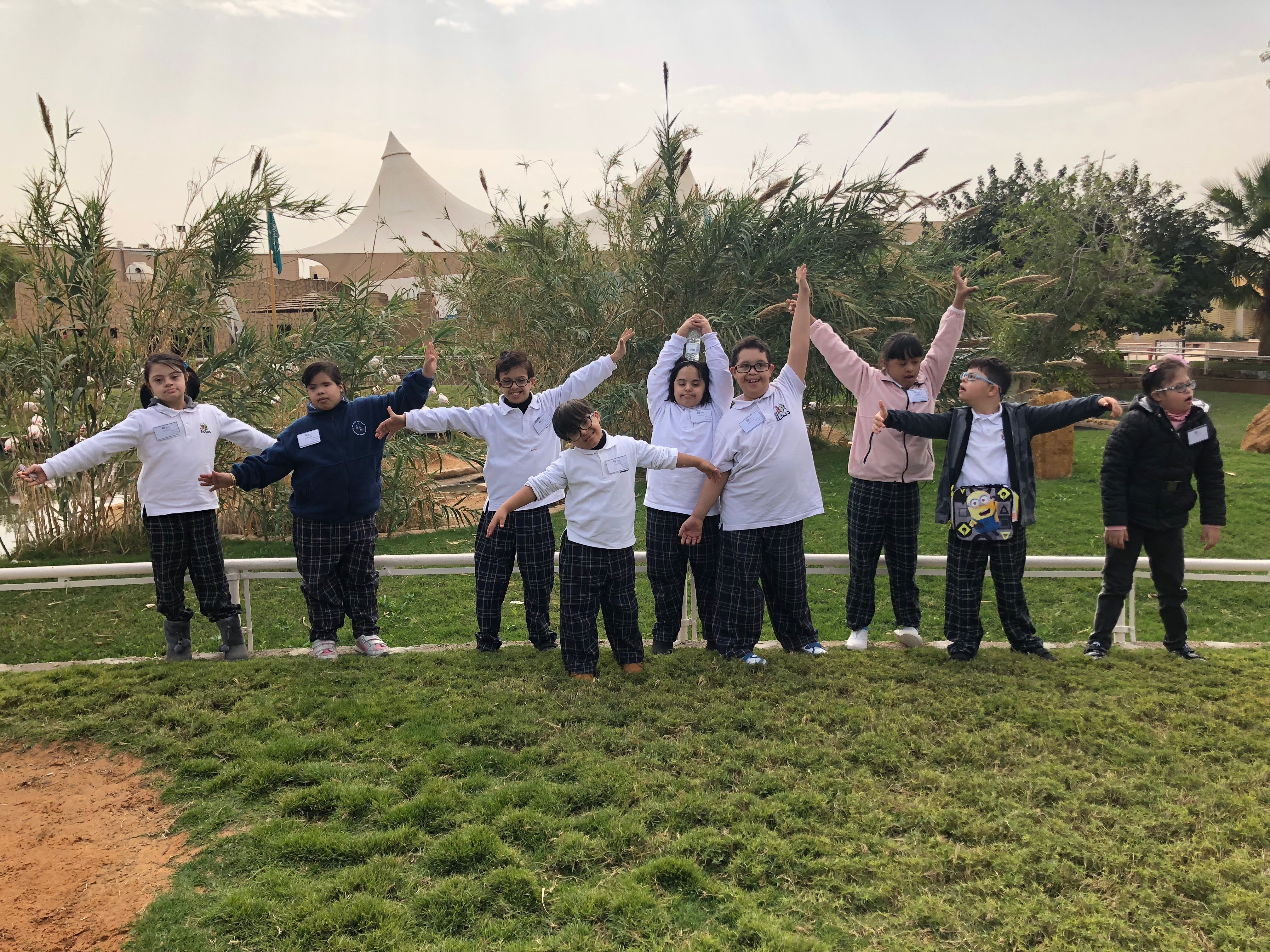 اطفال الجمعية في رحلة خارجية لحديقة الحيوانات